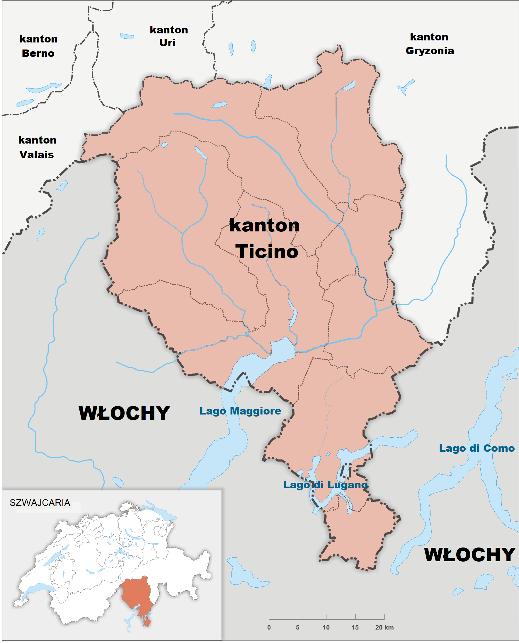 The map of canton of Ticino (Switzerland)